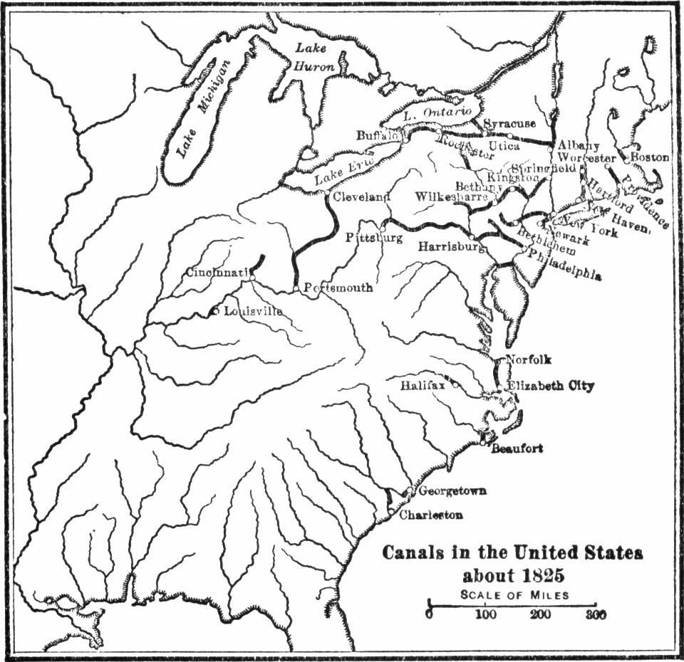 Original Title: 'Canals in the United States about 1825', the map is historically inaccurate, as some parts depicted were not yet built in 1825, although were proposed and funded by the Pennsylvania Legislature as the Main Line of Public Works act of 1824. • Specifically, the Allegheny Portage Railroad across the Allegheny Ridge into Western Pennsylvania would not be begun before 1831 nor completed until 1834. • The depiction of those proposed canals and navigations may be the source material of this map. The Schuylkill Canal was indeed completed in this year, AND 1824 was the start of making the 1818 Lehigh Canal navigations a two way canal.